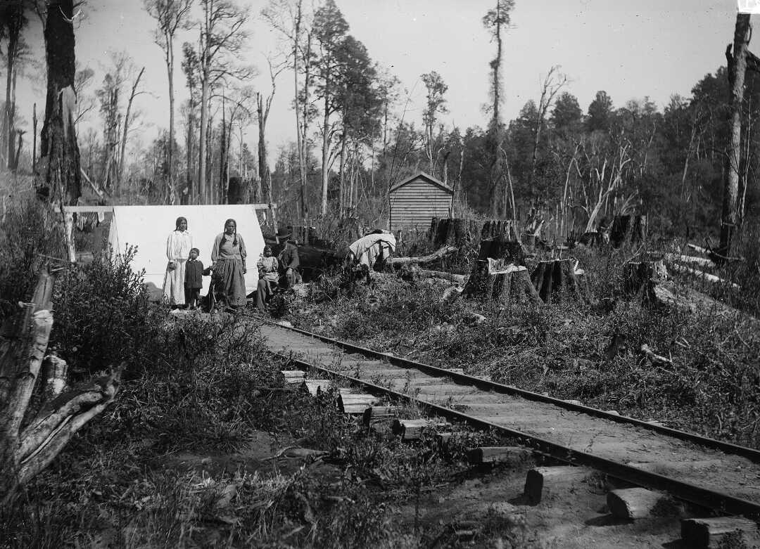 Note on back of file print reads "Probably Mangapeehi [sic]. Maoris [sic] had dispute with milling co Ellis & Burnand and pitched camp on line - R Young Te Pu[k?]e"